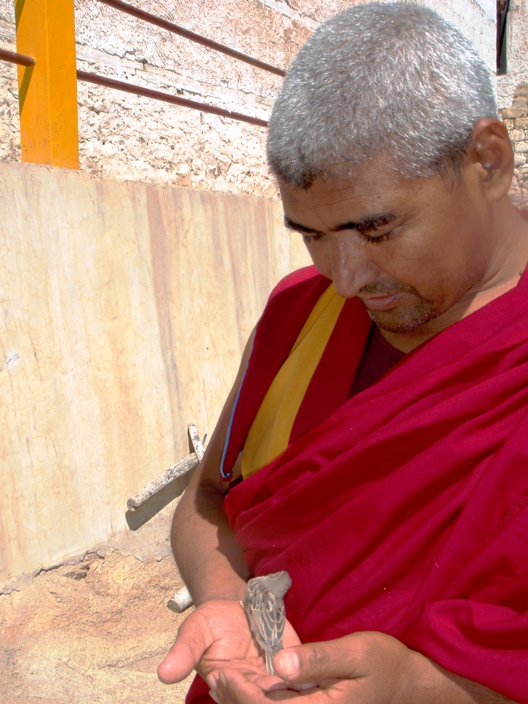 Photo taken on trip to Ladakh in 2010